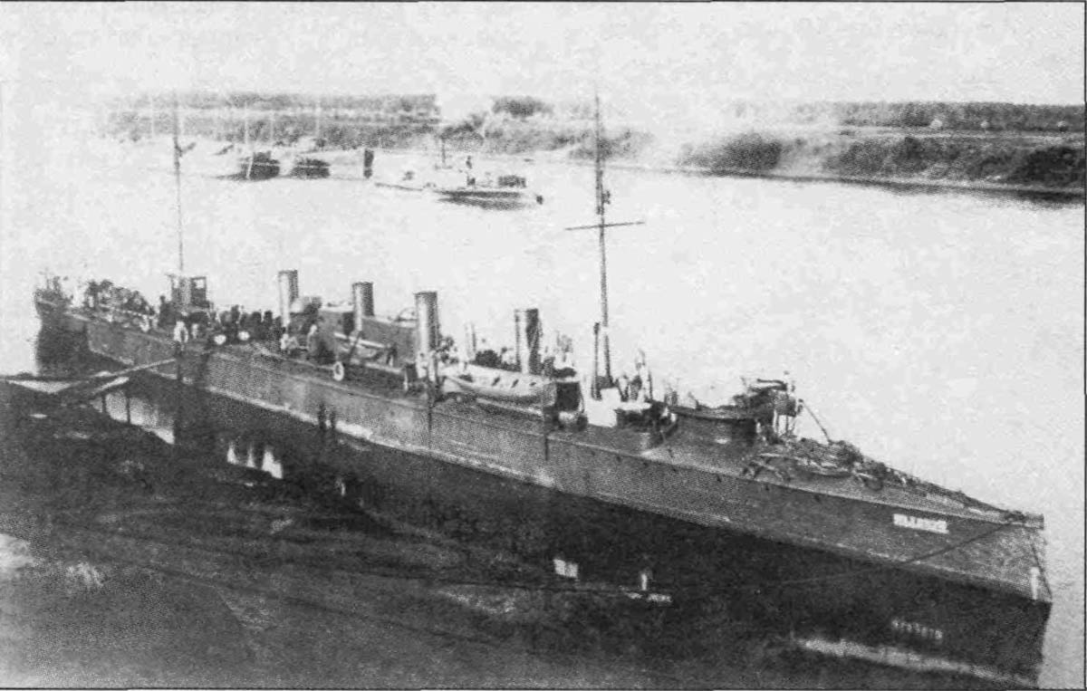 Imperial Russian torpedo boat destroyer Pylkii.